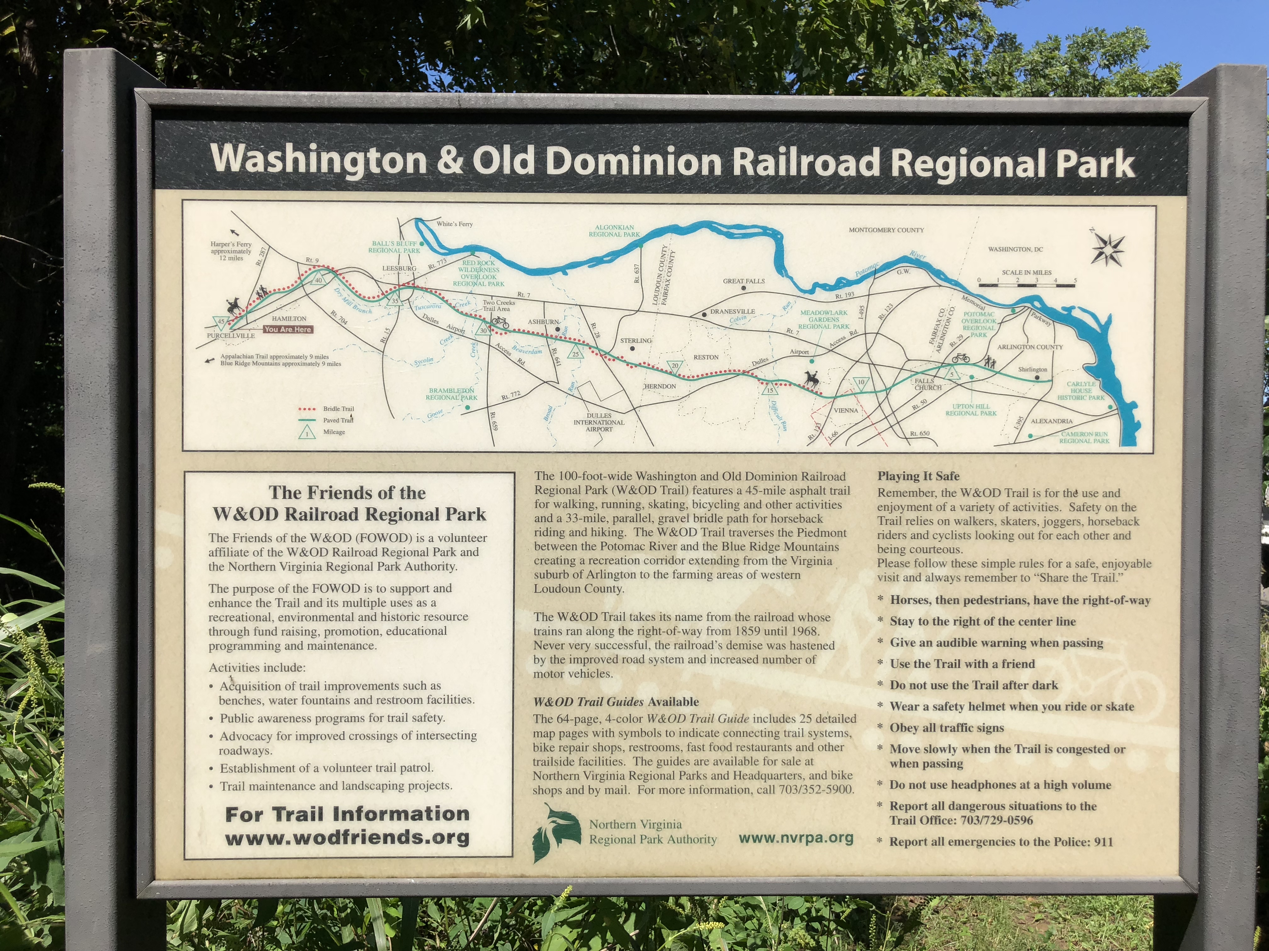 Washington & Old Dominion Railroad Regional Park map near the west end of the Washington and Old Dominion Trail in Purcellville, Loudoun County, Virginia